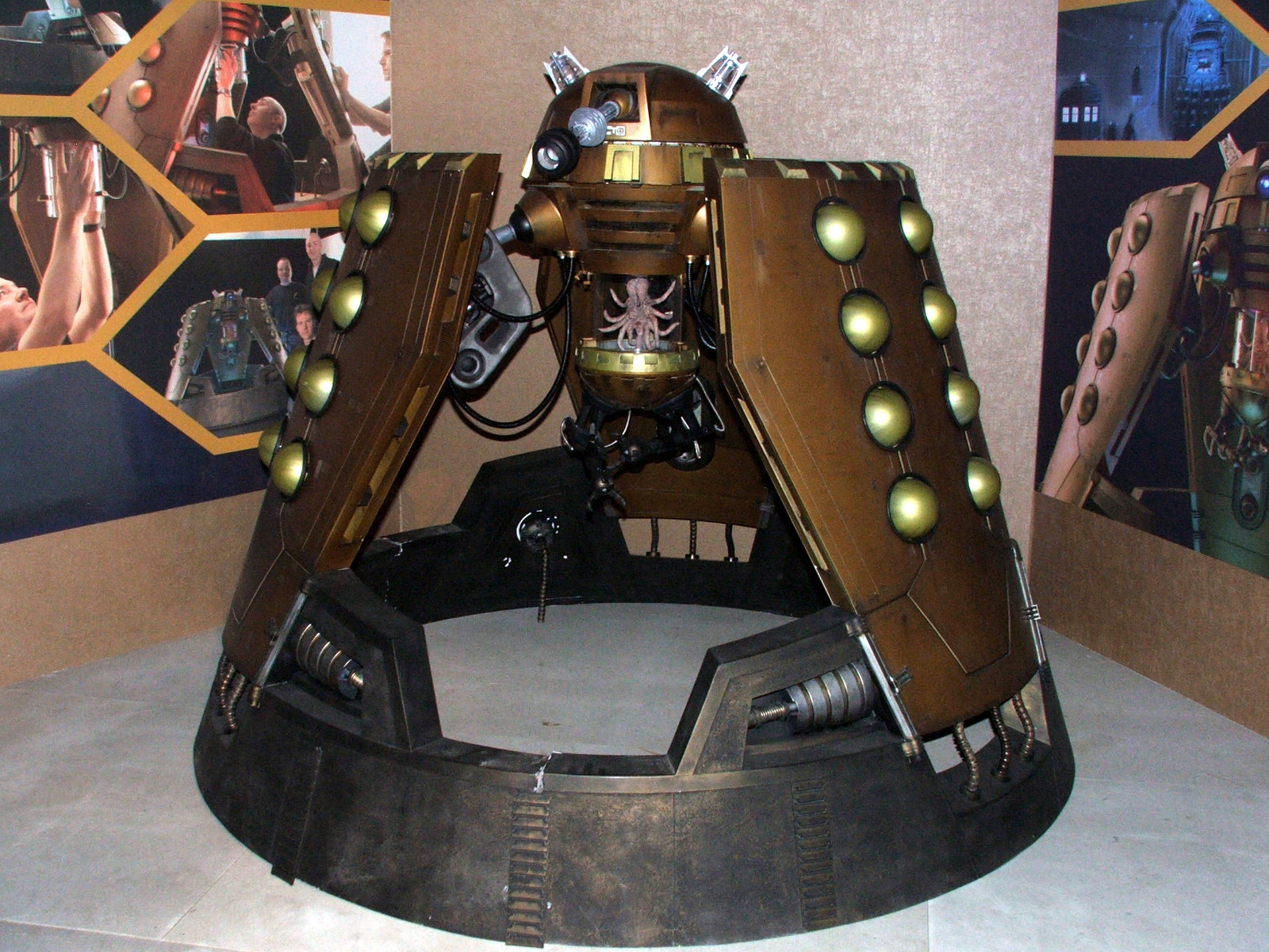 260506-039 Doctor Who Experience